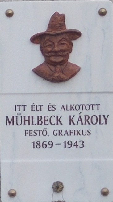 Károly Mühlbeck here lived worked plaque-relief by Ferenc Dorogi and József Dudás (stone carver) /bronze relief on marble plaque/- 41 Budapesti út, Sashalom neighborhood, 16th district, Budapest.